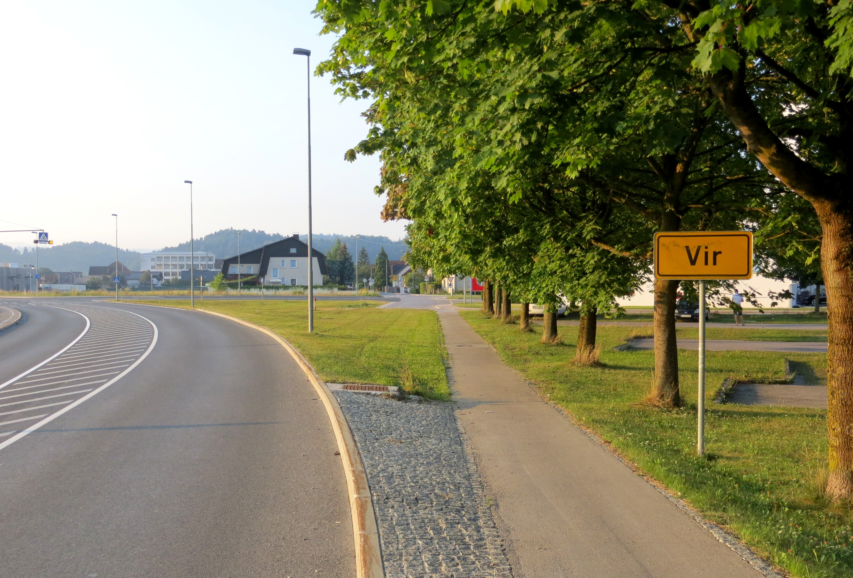 Vir, Municipality of Domžale, Slovenia